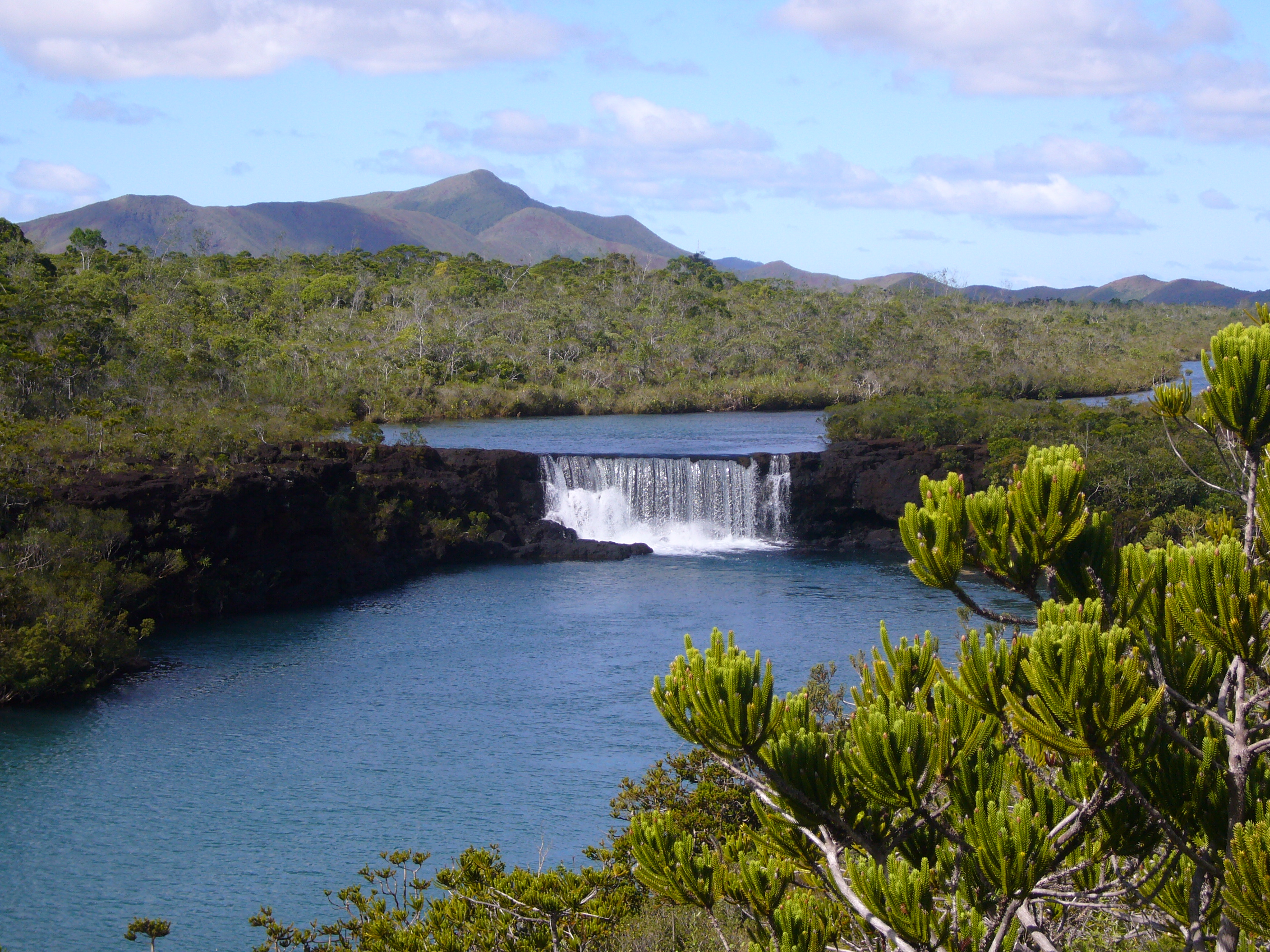 Madeleine Falls, with Neocallitropsis pancheri in foreground. New Caledonia.